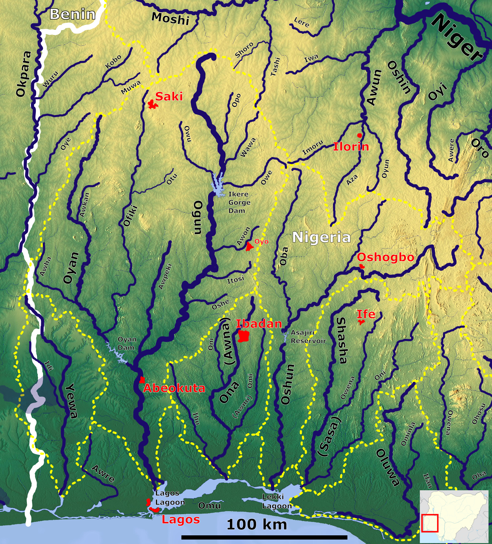 Map of the Coastal rivers of south west Nigeriae OSM